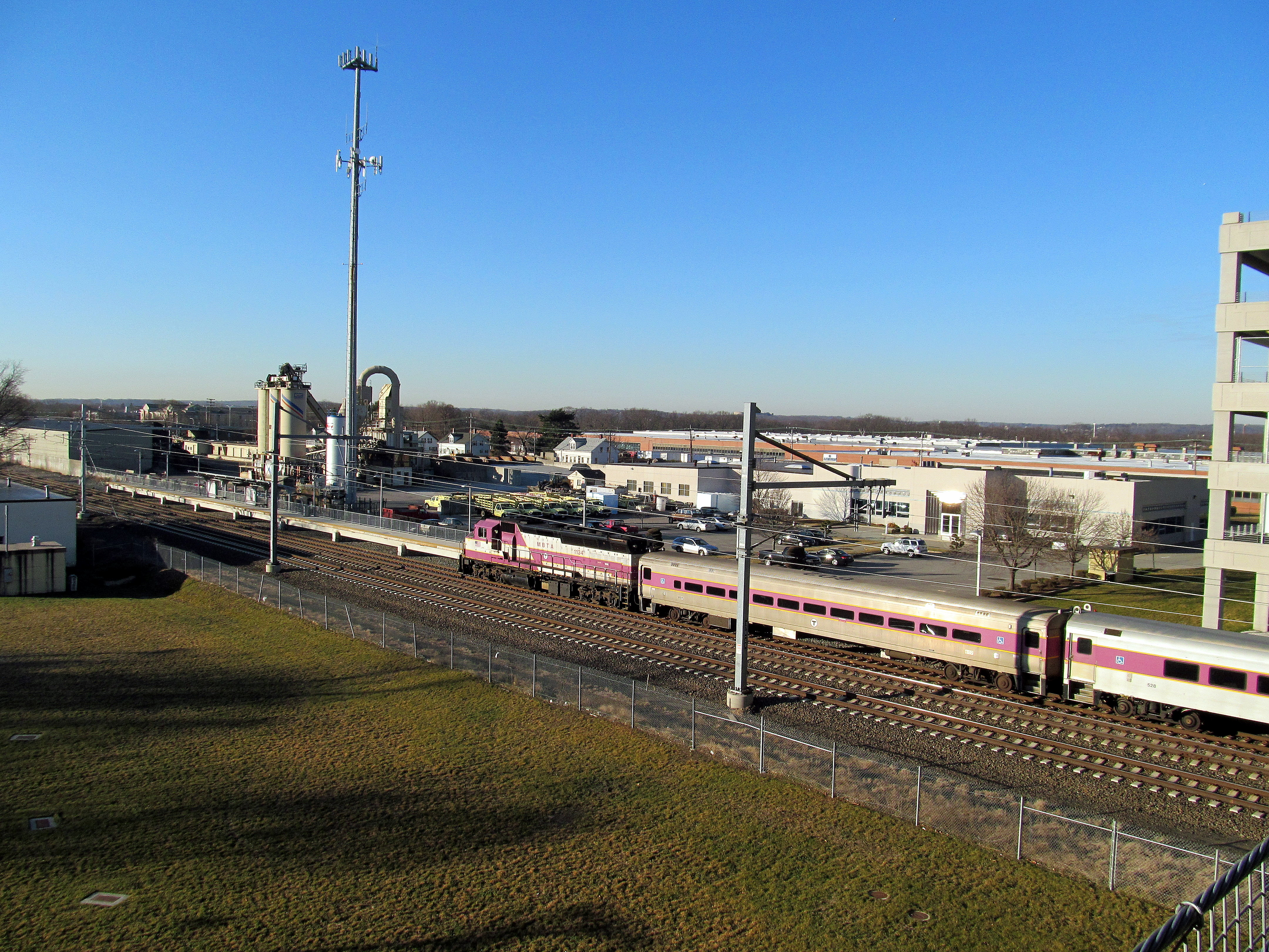 Commuter rail train at T.F. Green Airport station